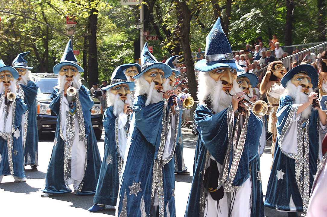 all rights with the parade - free to publish